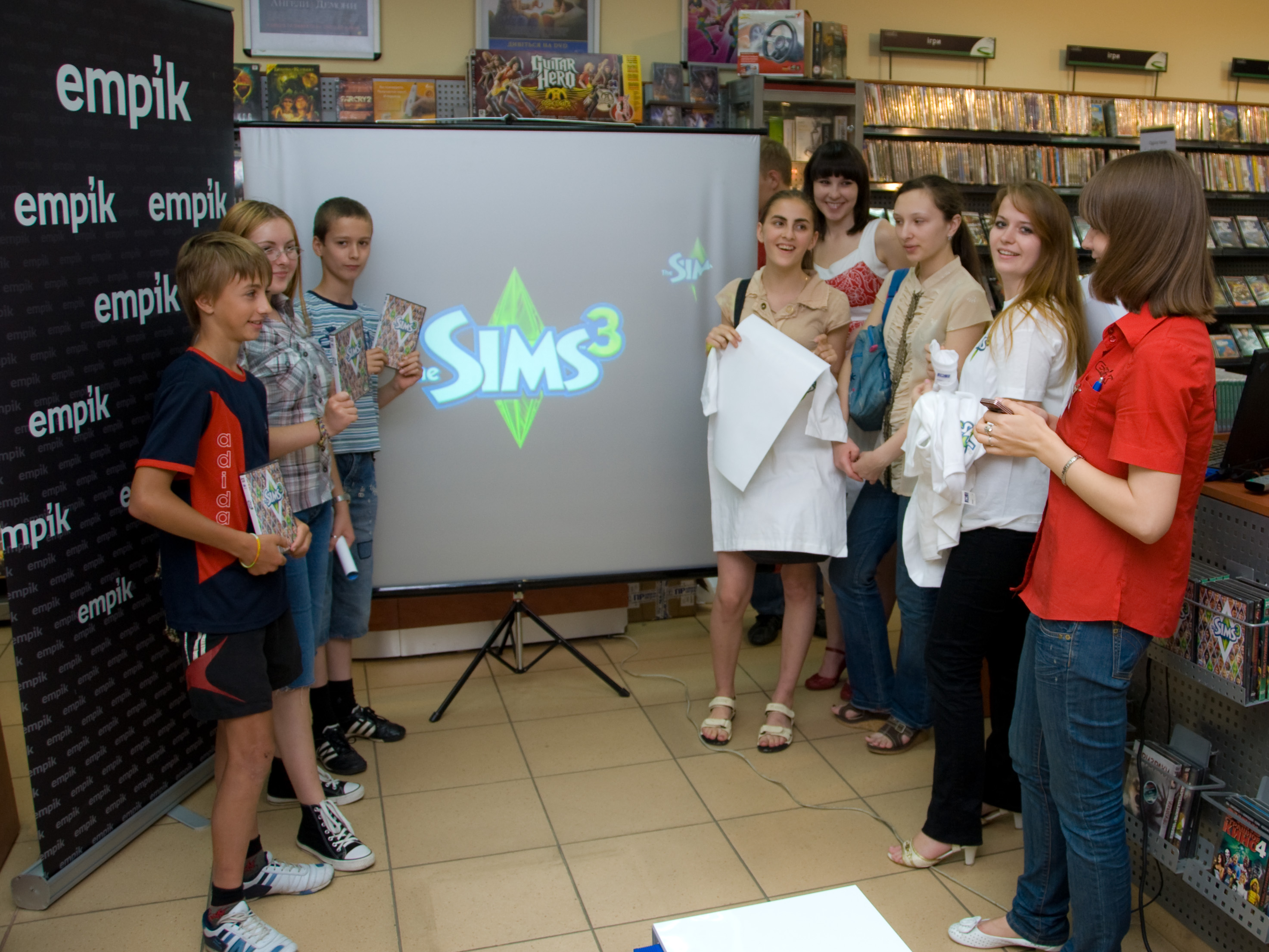 Запуск The Sims 3 в Украине в киевском магазине Empik на Позняках